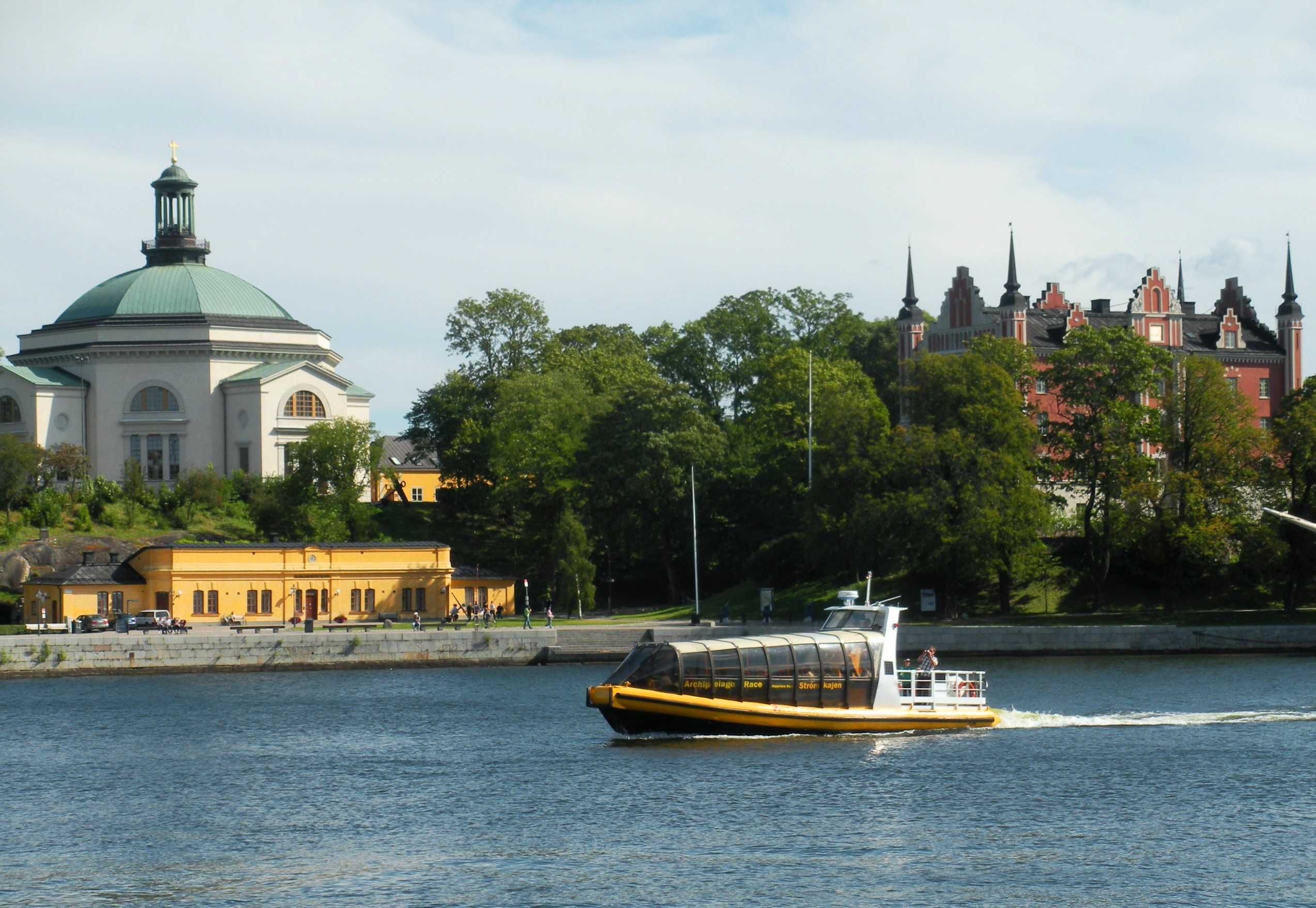 Skeppsholmen island in Stockholm